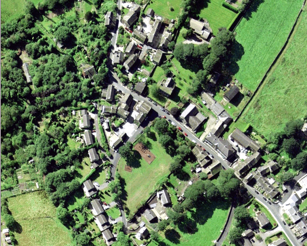 Aerial image of Wooldale, Holmfirth, west Yorkshire, UK